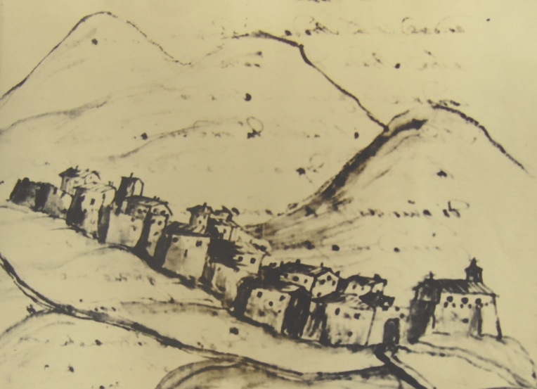 Elba island